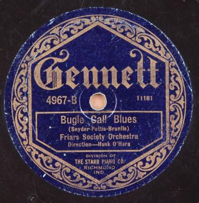 "Bugle Call Blues" by the Friars Society Orchestra, Gennett Records, 4967-B, 1922.